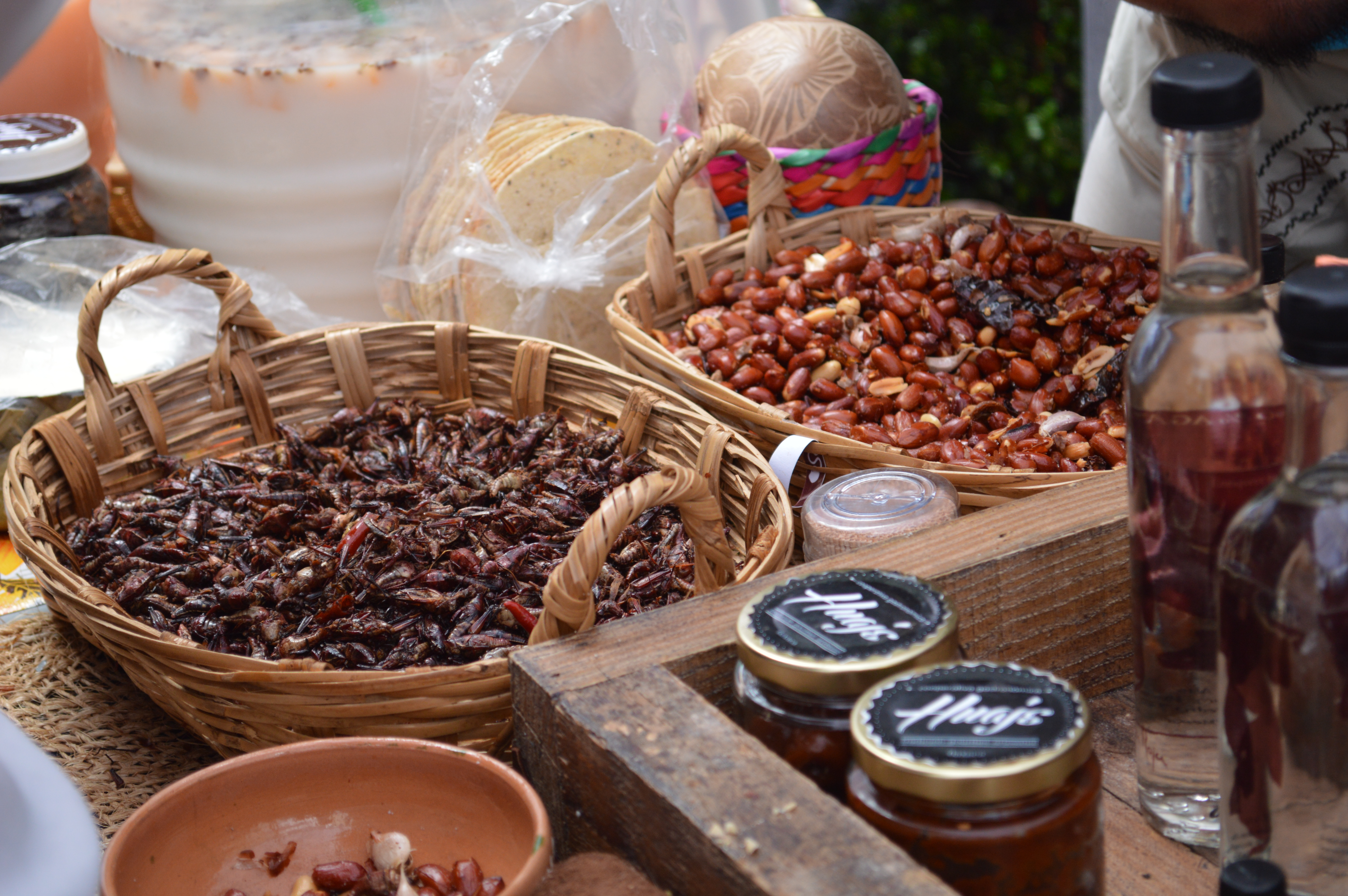 Chapulines and chili flavored peanuts at the 6o Festival Gastronómico y Artesanal in Colonia Roma, Mexico City